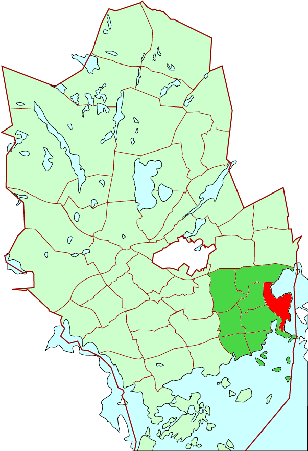 Otaniemi/Otnäs district in Espoo city, Finland